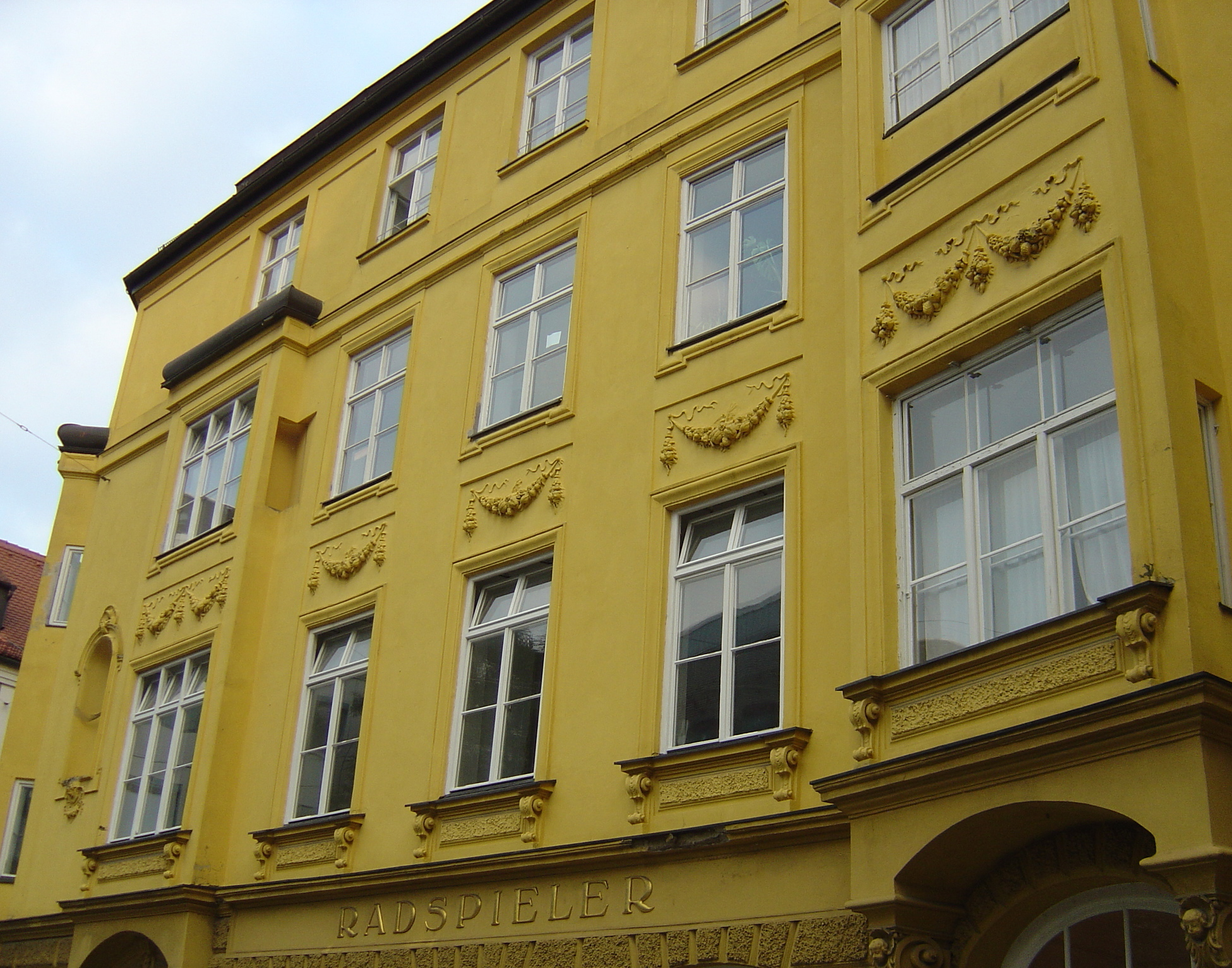 Photo of the Radspielerhaus in Munich, Germany. By Daniel J. Layton, Summer 2006 Djlayton4 14:51, 4 May 2007 (UTC)